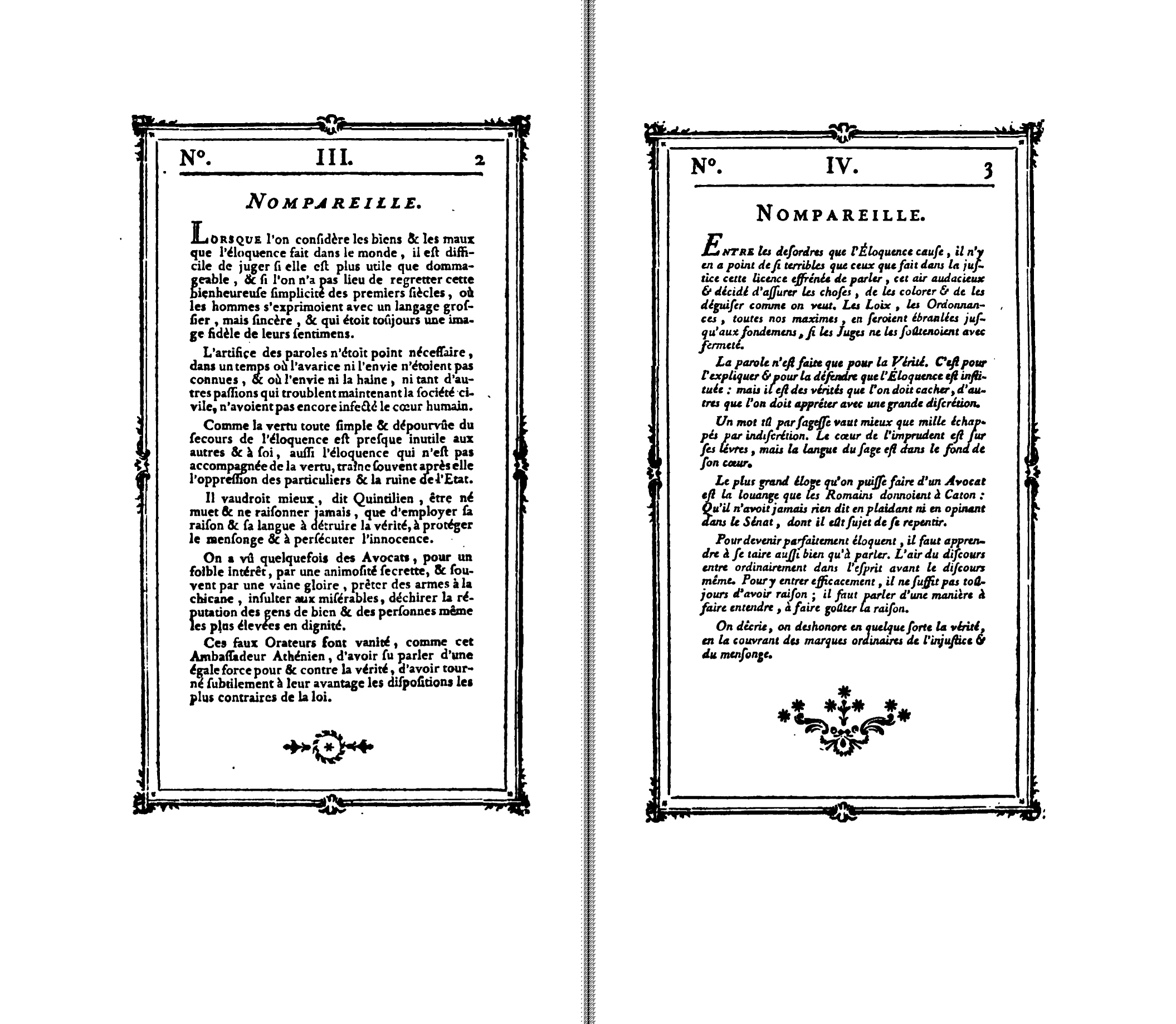 Page-spread from "Manuel Typographique" written and printed by Pierre-Simon Fournier in 1764—1768. Here is volume 2.